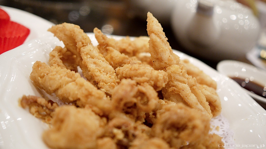 Salt & Pepper Bombay Duck